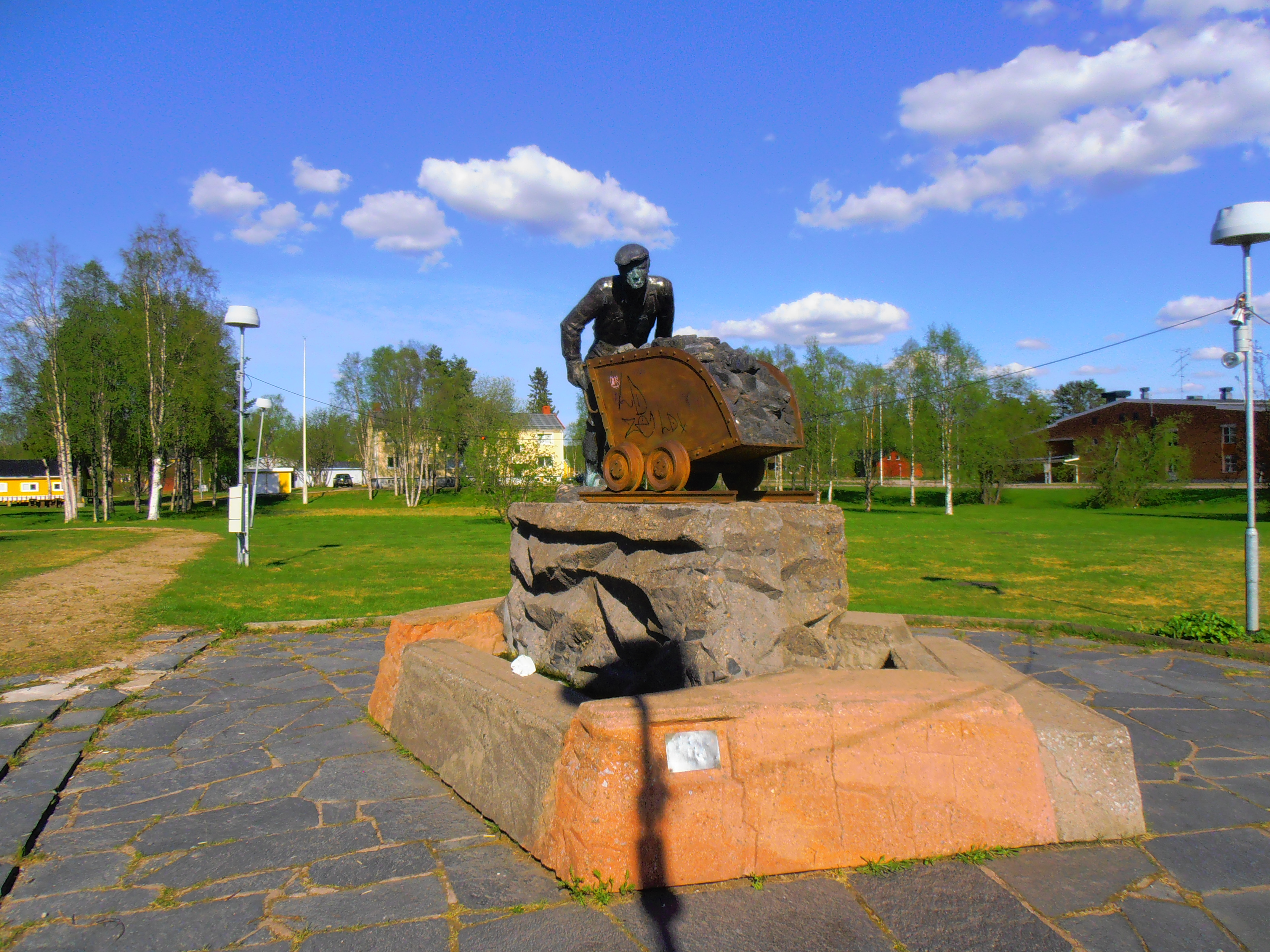 Statue, Koskullskulle